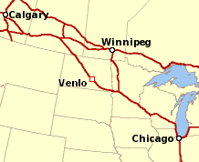 Venlo on the SOO-line